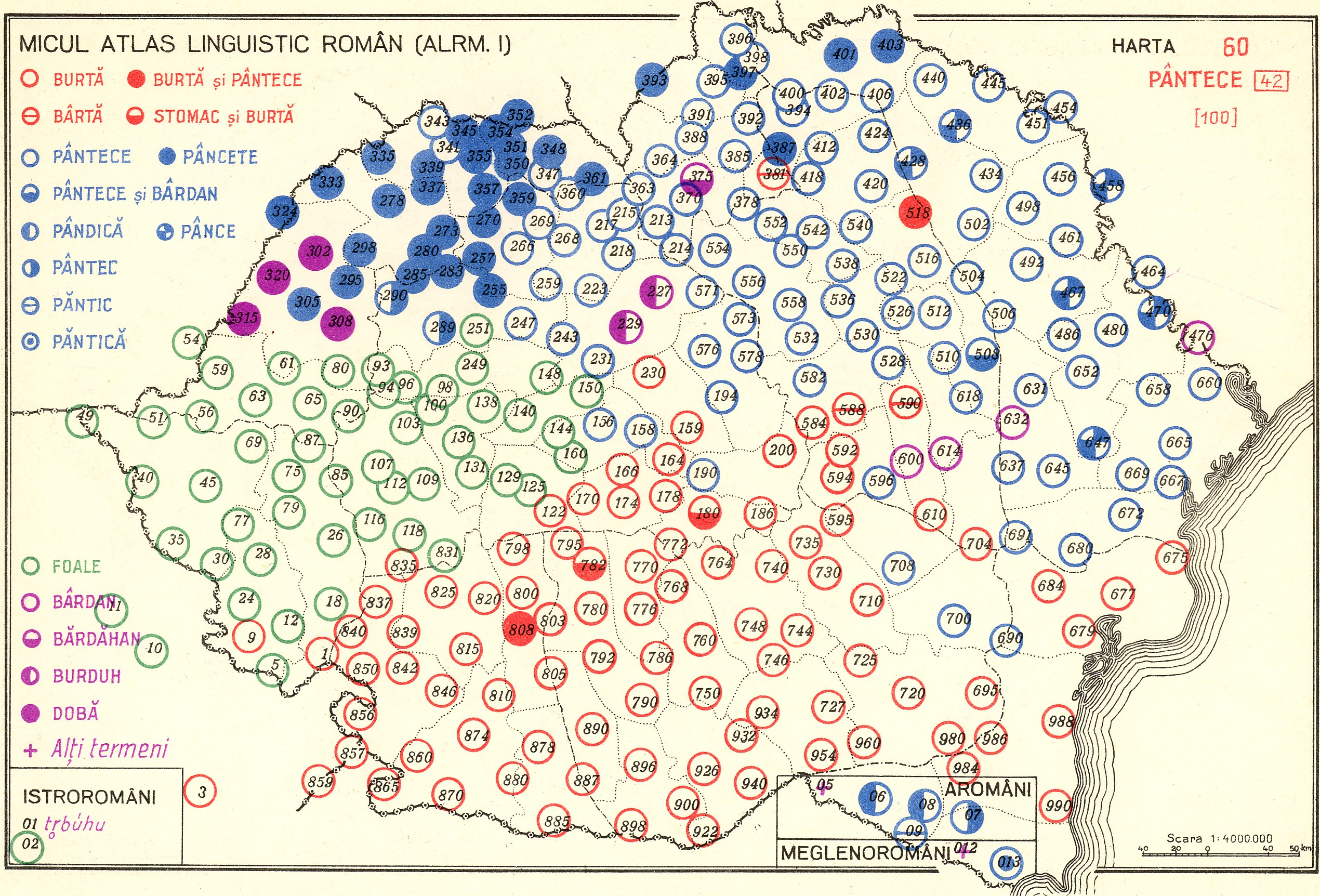 Map of the Small Romanian linguistic atlas (Micul atlas lingvistic român) showing the variants of the word "burtă" and their distribution. Legend: BURTĂ BÂRTĂ BURTĂ şi PÂNTECE STOMAC şi BURTĂ PÂNTECE PÂNCETE PÂNTECE şi BÂRDAN PÂNDICÂ PÂNCE PÂNTEC PÂNTIC PÂNTICÂ FOALE BÂRDAN BĂRDĂHAN BURDUH DOBĂ Alti termeni trbúhuCymraeg: Map yr Atlas bach ieithyddol Rwmania (Micul atlas lingvistic român) gant amrywiolion y gair "burtă" ac eu dosbarthiad